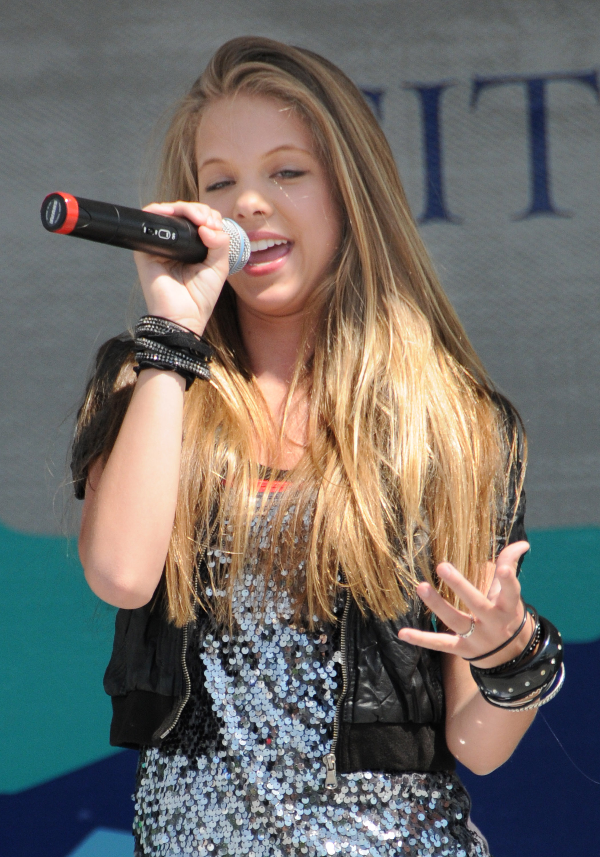 Anna Margaret - Education in the Park 2010